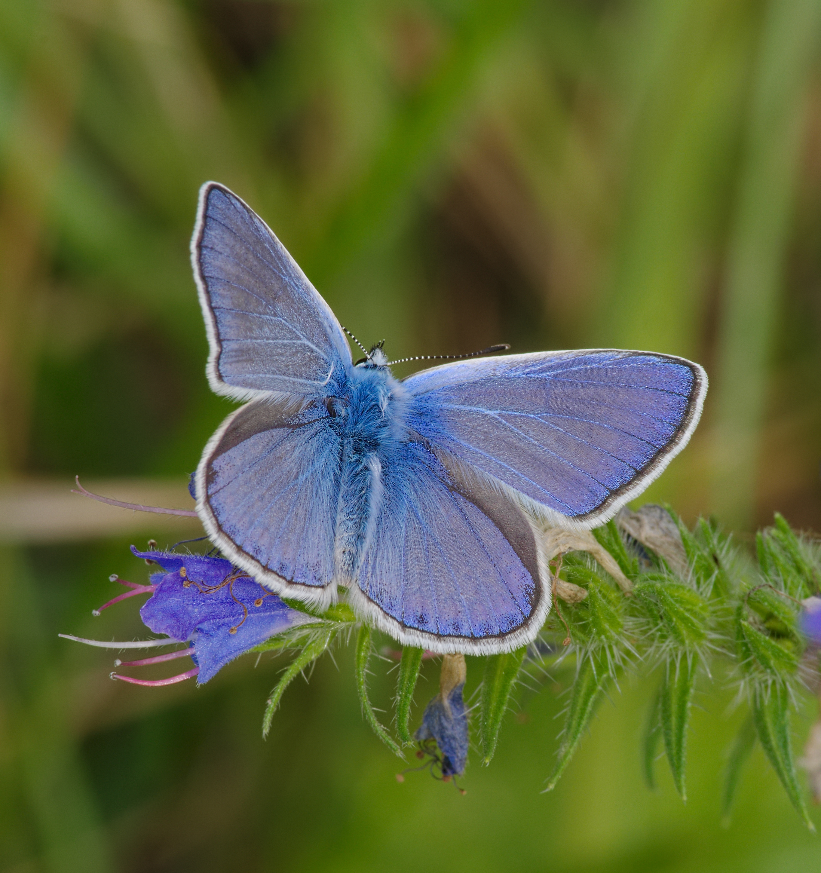 Common blue - Polyommatus icarus, male. Taken in Mannheim-Vogelstang, Baden-Württemberg, Germany.